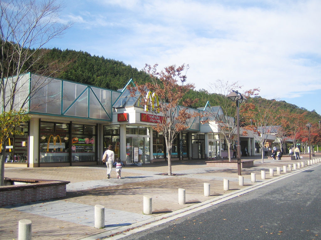 Miai Parking Area (美合パーキングエリア), in Okazaki, Aichi, Japan